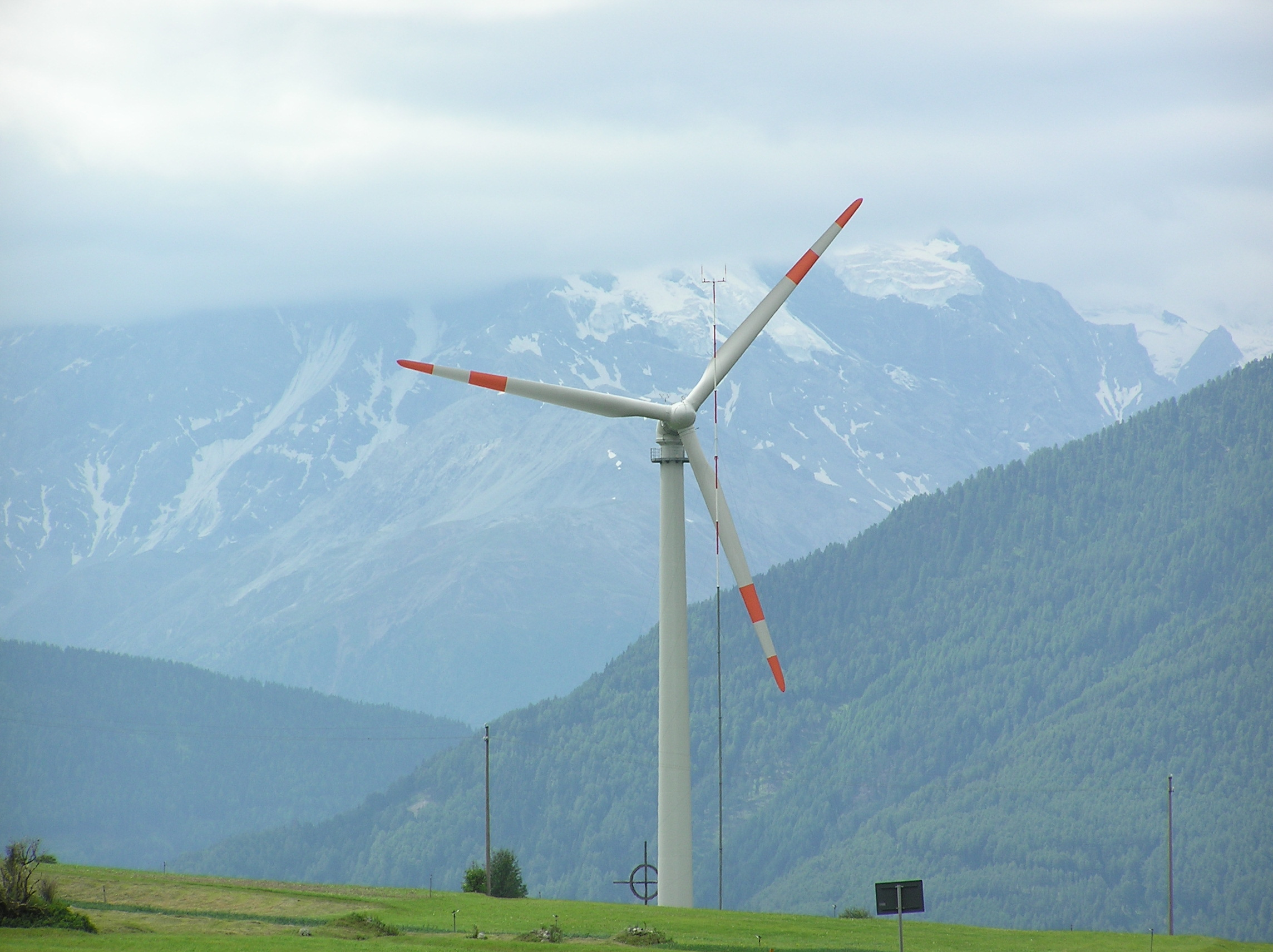 Leitwind LTW 77 wind turbine on Reschen Pass, Italian side, at Malser Haide